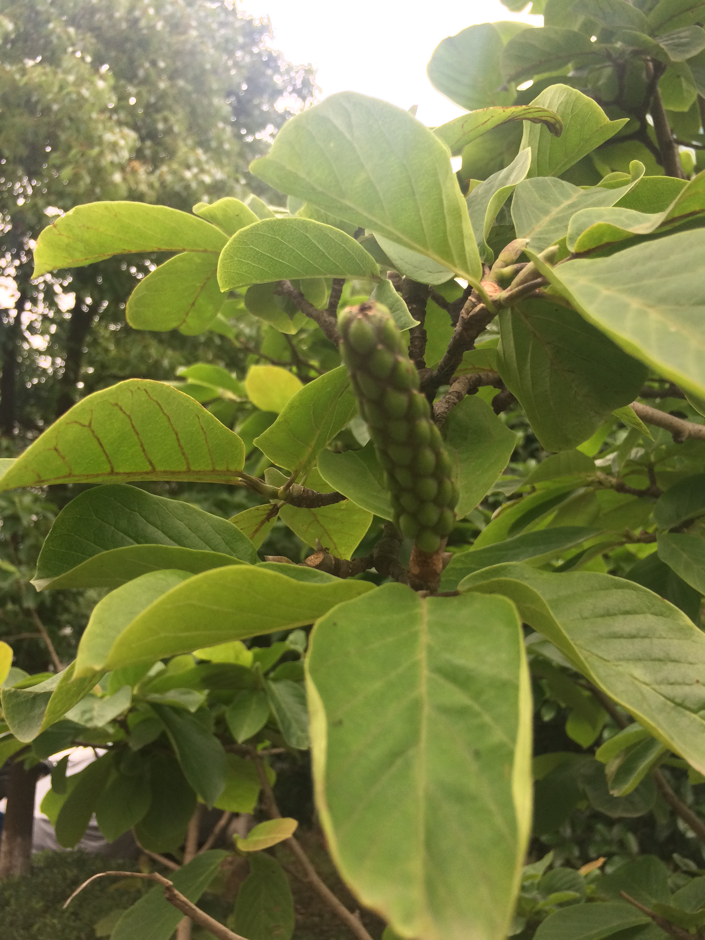 Magnolia denudata 中文（中国大陆）: 初夏玉兰果实